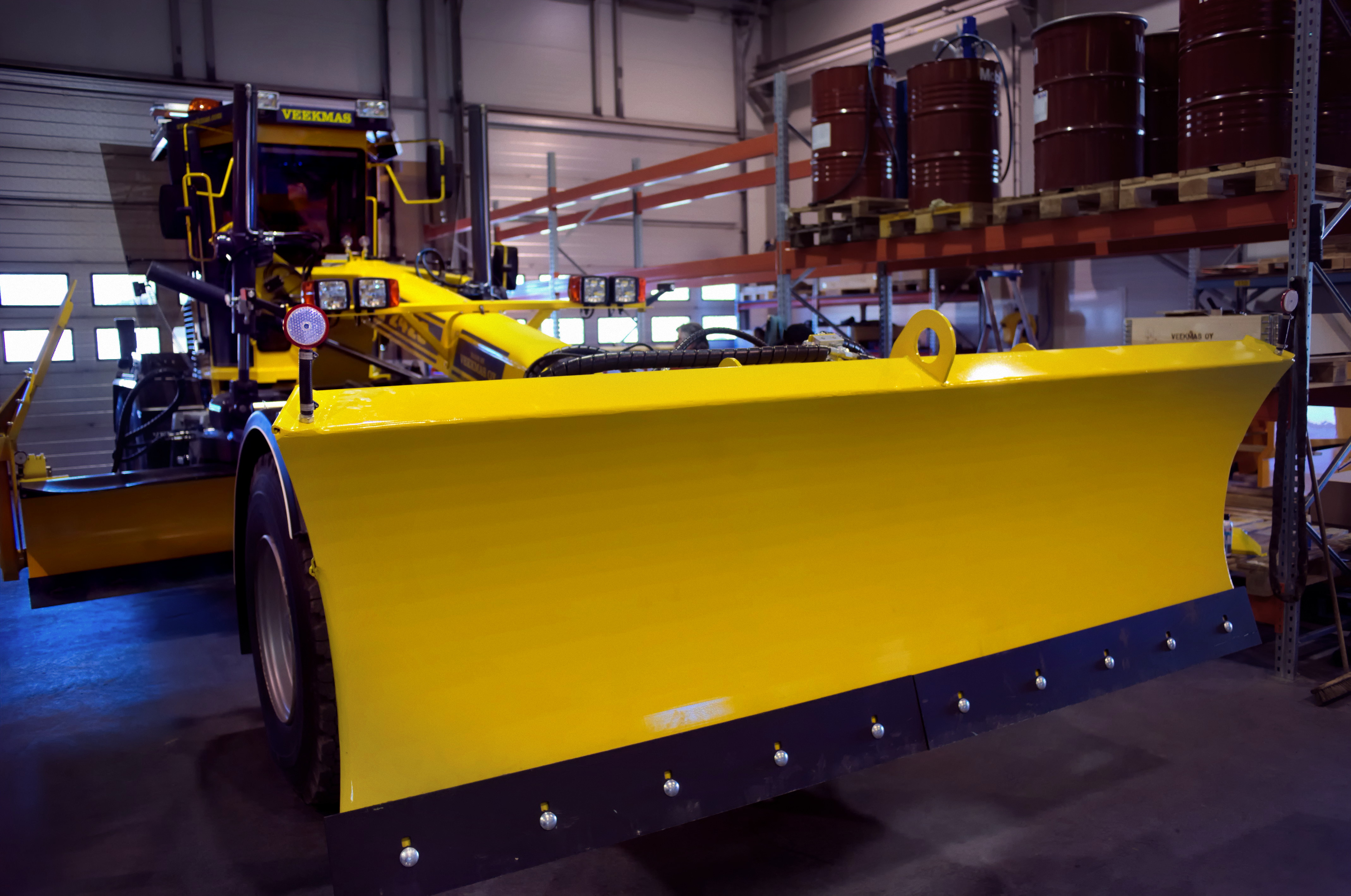 Veekmas S-2428 at Kitee, Finland